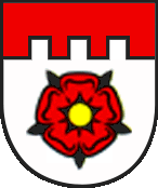 coat of arms of Miehlen, Germany